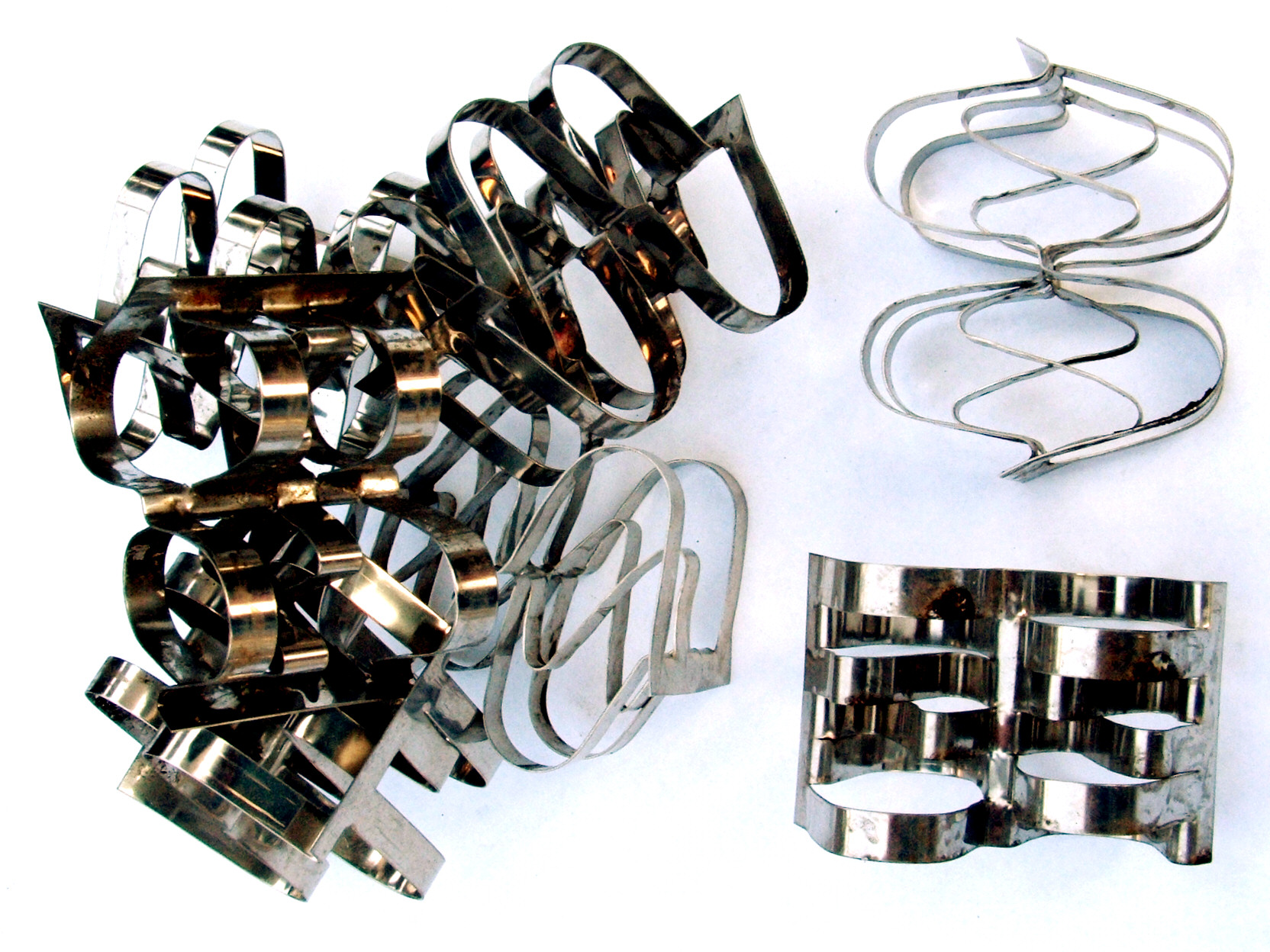 Raschig rings used in distillation column (packed bed)